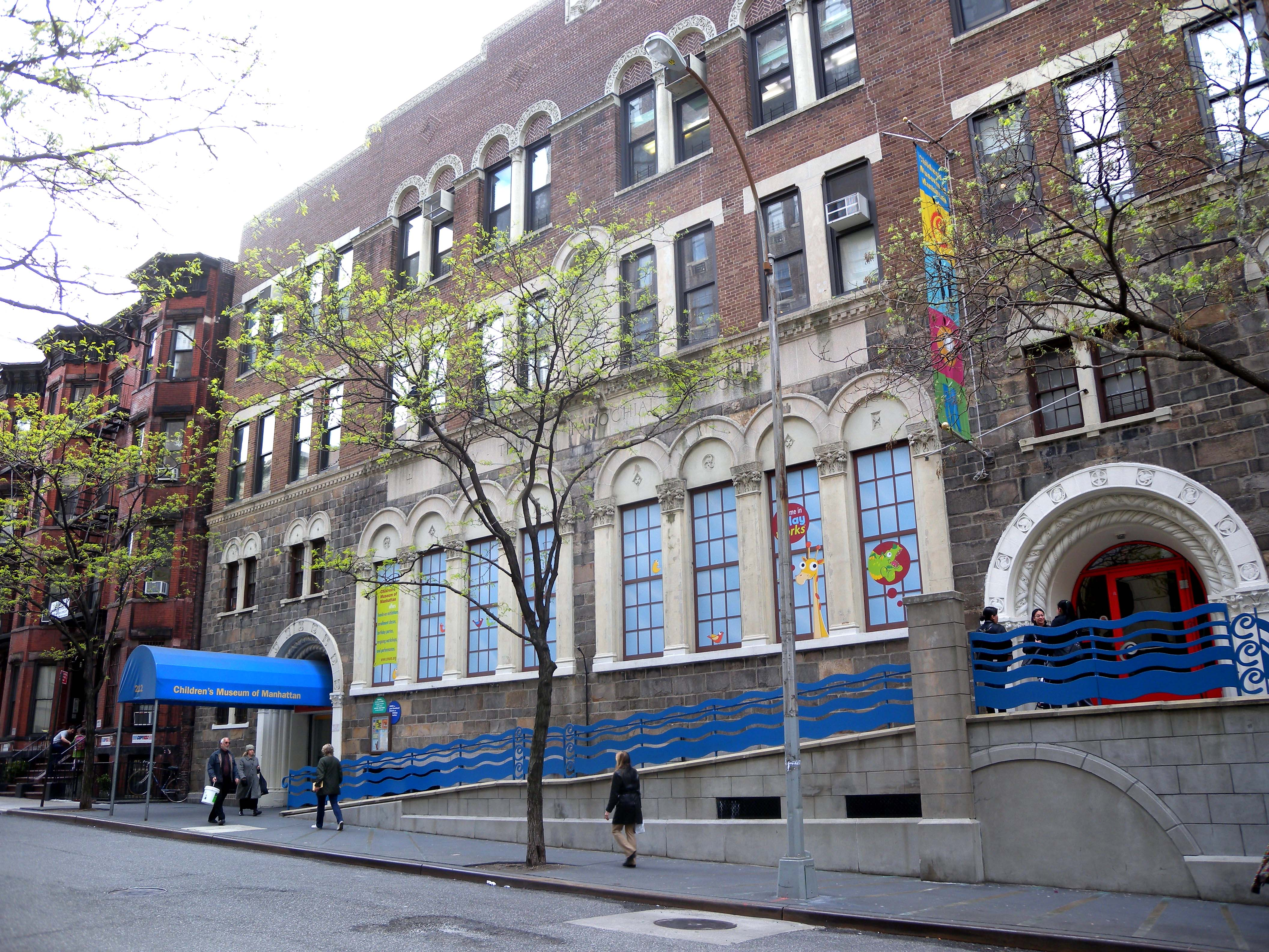 Looking southeast across W83d St at front of Childrens Museum on a coudy afternoon. ZIP 10024.